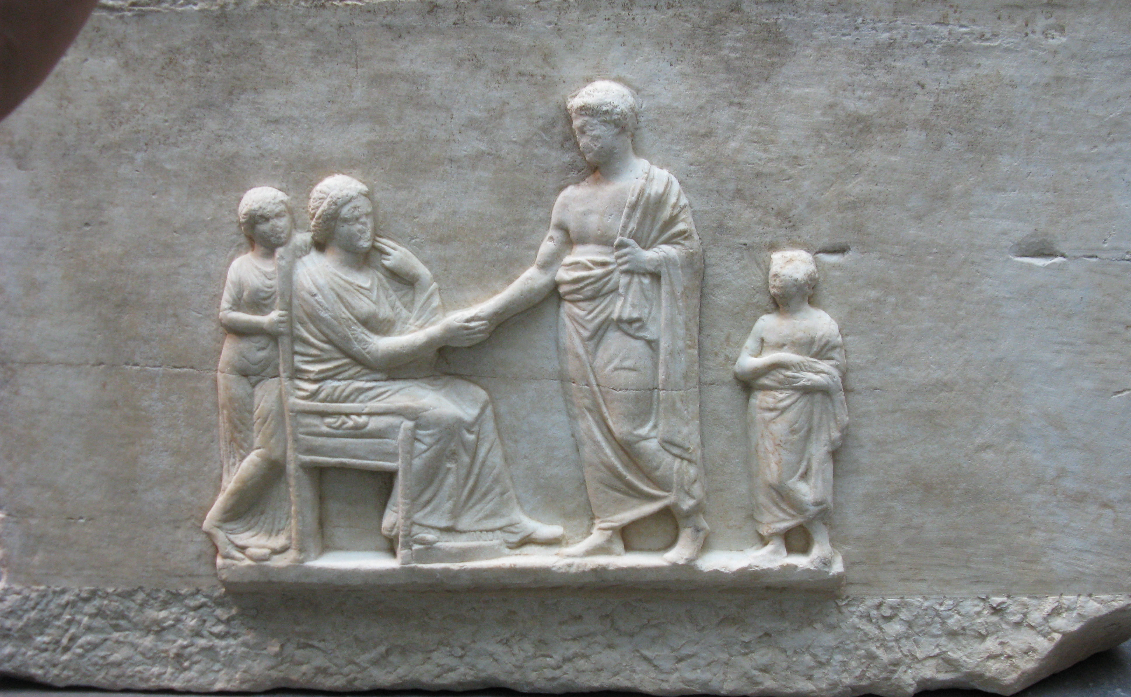 House of Proclos. Funeral sacrificial table (mensa). 350-325 BC Relief representations of lamentation, farewell and posthumous meet of the deceased with philosophers.